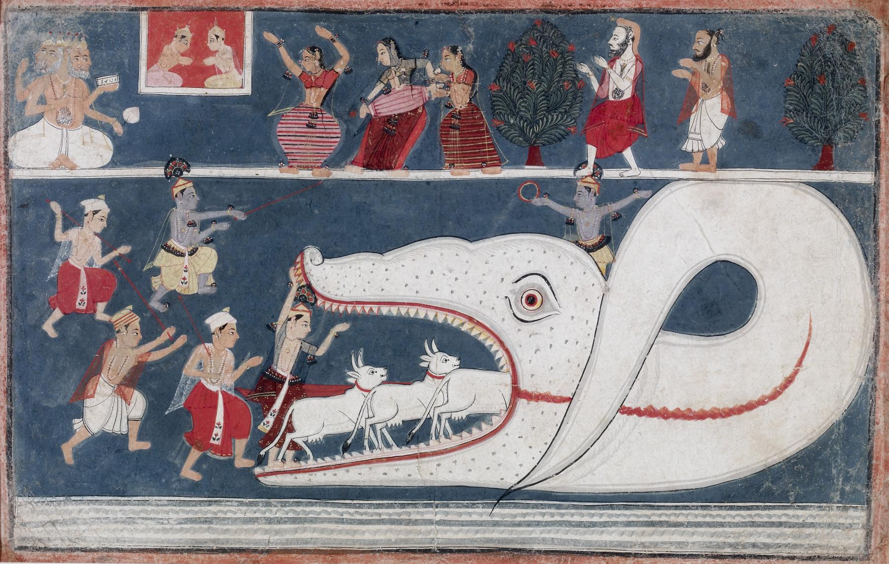 "Aghasura is one of the many antagonists who challenge Krishna during his childhood. This conflict occurs in Krishna's fifth year. Aghasura transforms himself into a gigantic reptile and lies with his cavernous mouth open, hoping to lure the cowherd boys. Unable to contain their curiosity, the boys stroll into the mouth and are swallowed. Krishna, however, is not fooled. He enters the mouth, chokes the creature, and rescues his companions. The unknown artist of this series, while taking some liberties, on the whole has remained faithful to the narrative. The boys, including Krishna, are not five years old but adolescents and enter the mouth with their cattle. Aghasura looks more like a giant white whale than the reptile of the text. In fact, he is a giant makara. Krishna is portrayed a second time, dancing victoriously behind Aghasura's shoulder. Separated by a thin white line, the scene in the upper register, which represents paradise, follows the text explicitly. The celestials worship Krishna with flowers, the apsaras with dance, and the brahmins with chants. Brahma, too, joins the celebration and is included in the upper left corner in his hieratic form. The two figures seated in conversation within a red box between two other divinities shower flowers, which, however, have not been shown. The chanting brahmins are framed by two trees."